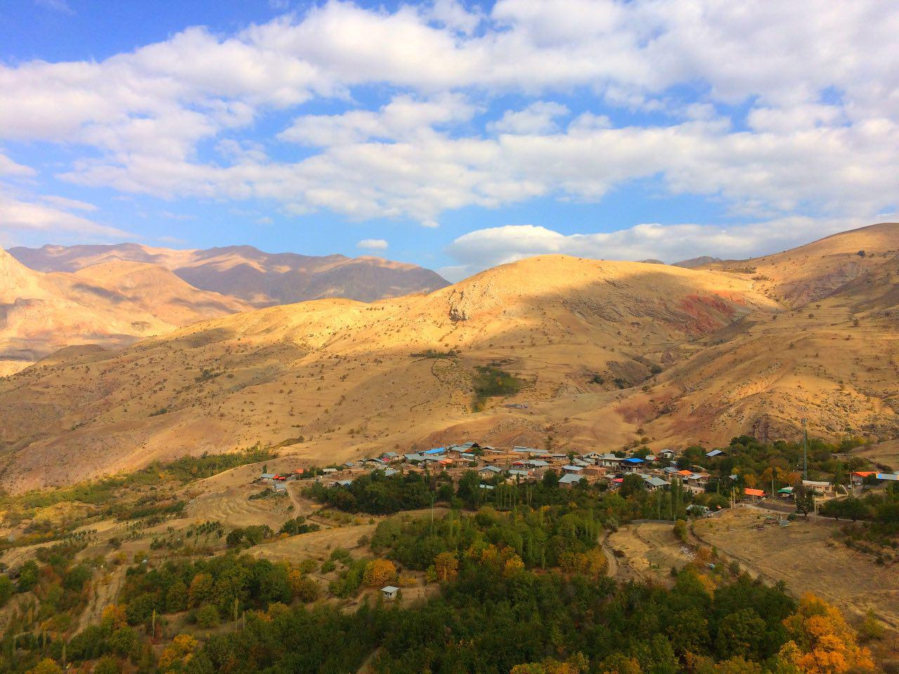 Yuj village in autumn; Qazvin County, Iran